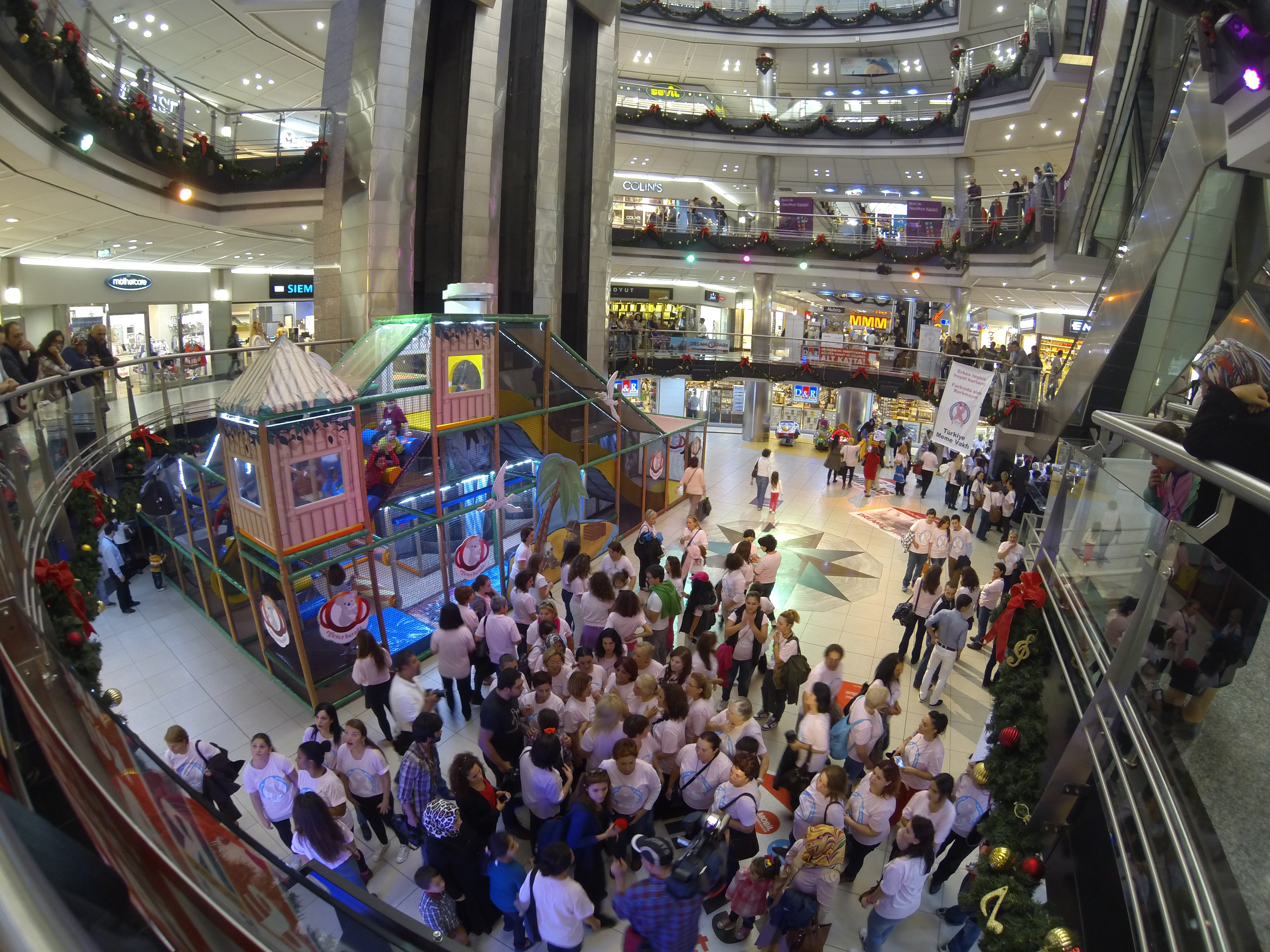 Metrocity